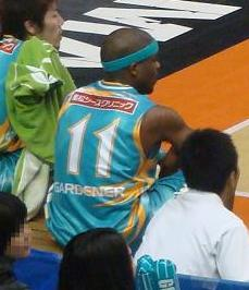 takamatsufivearrows